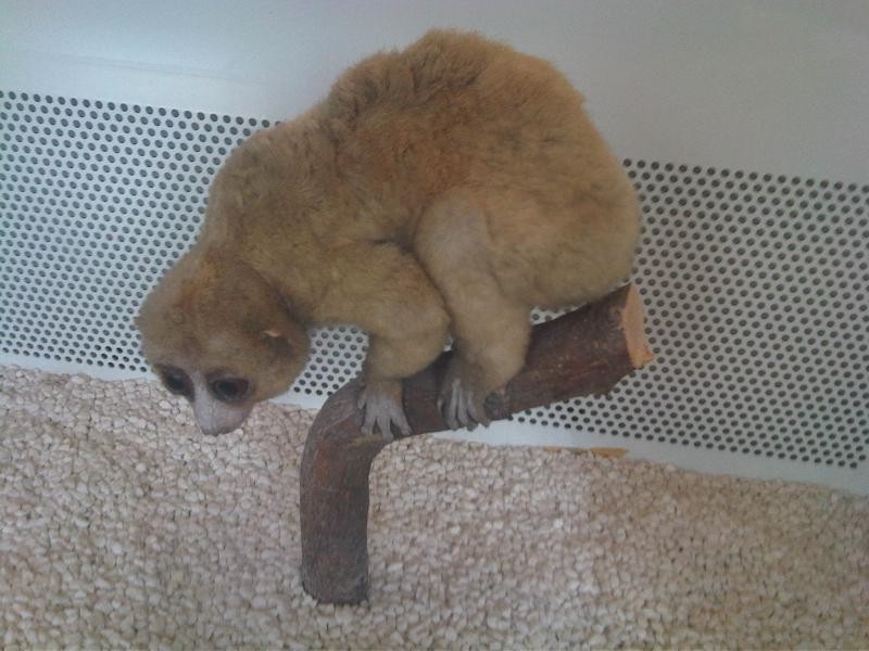 Taxidermied Sunda slow loris or greater slow loris (Nycticebus coucang) at the Natural History Museum in London, England.